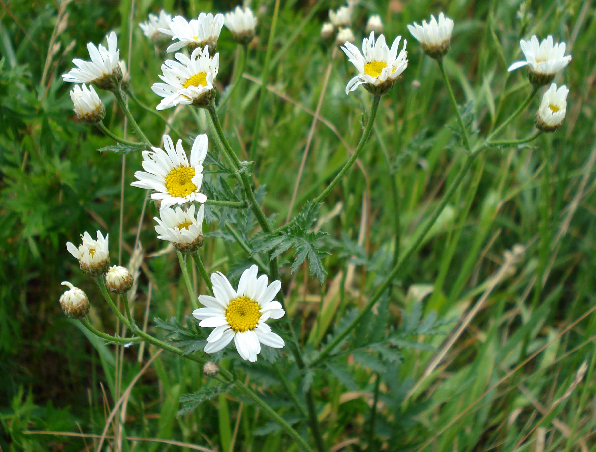 Tanacetum corymbosum (Unterfranken, Germany)